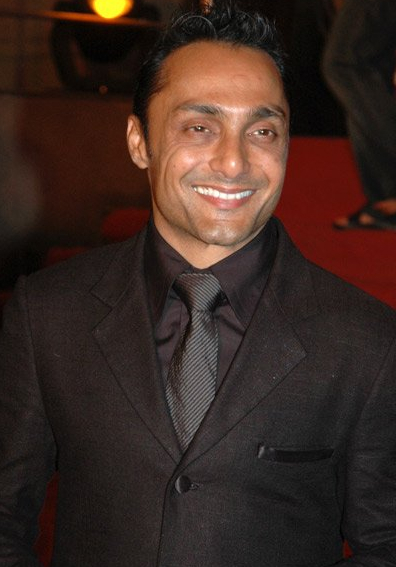 Rahul Bose at the premiere for Tahaan.